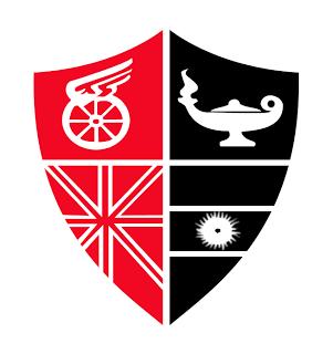 Logo of Colegio Comercial Anglicano Argentino of Rosario, founded by English immigrant Isaac Newell in 1884. The badge has many symbols as the God Mercury's wings and the flag of England on the left side (red background). The right side of the badge contains the lamp of wisdom and the flag of Argentina, on black background. On the other hand, the red and black colors were chosen by Newell to honor his own home country (England) and his wife's birthplace (Germany). This badge has been used by Argentine football team Newell's Old Boys since 2011.[1][2]